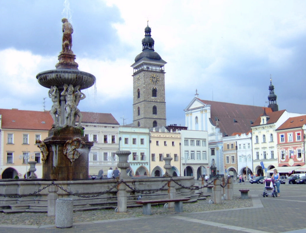 Přemysl Otakar II Square, České Budějovice, Czech Republic. Samson's Fountain, Black Tower and cathedral church of St. Nicholas.